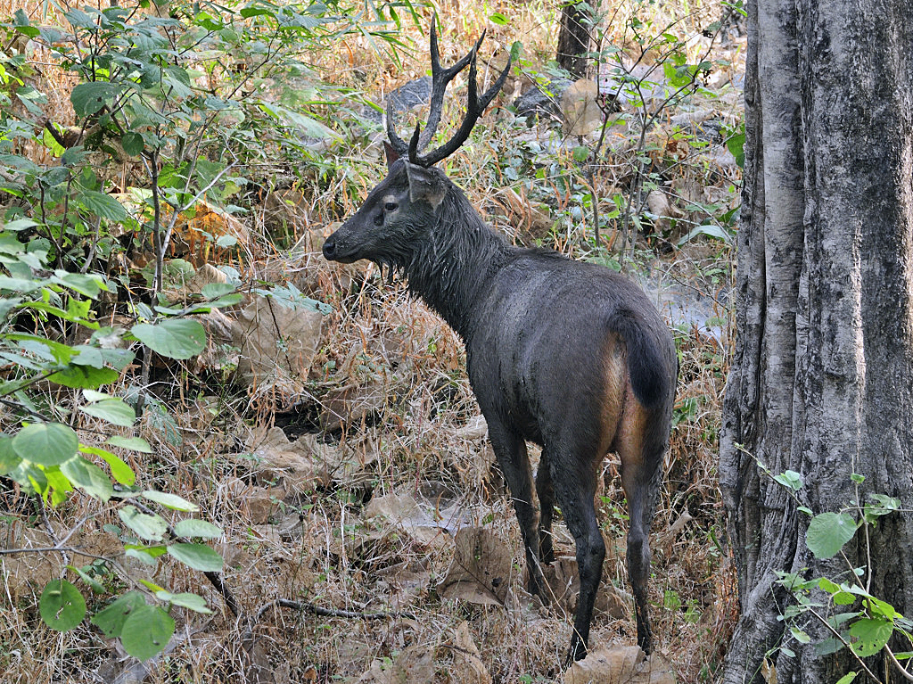 A male Sambhar deer